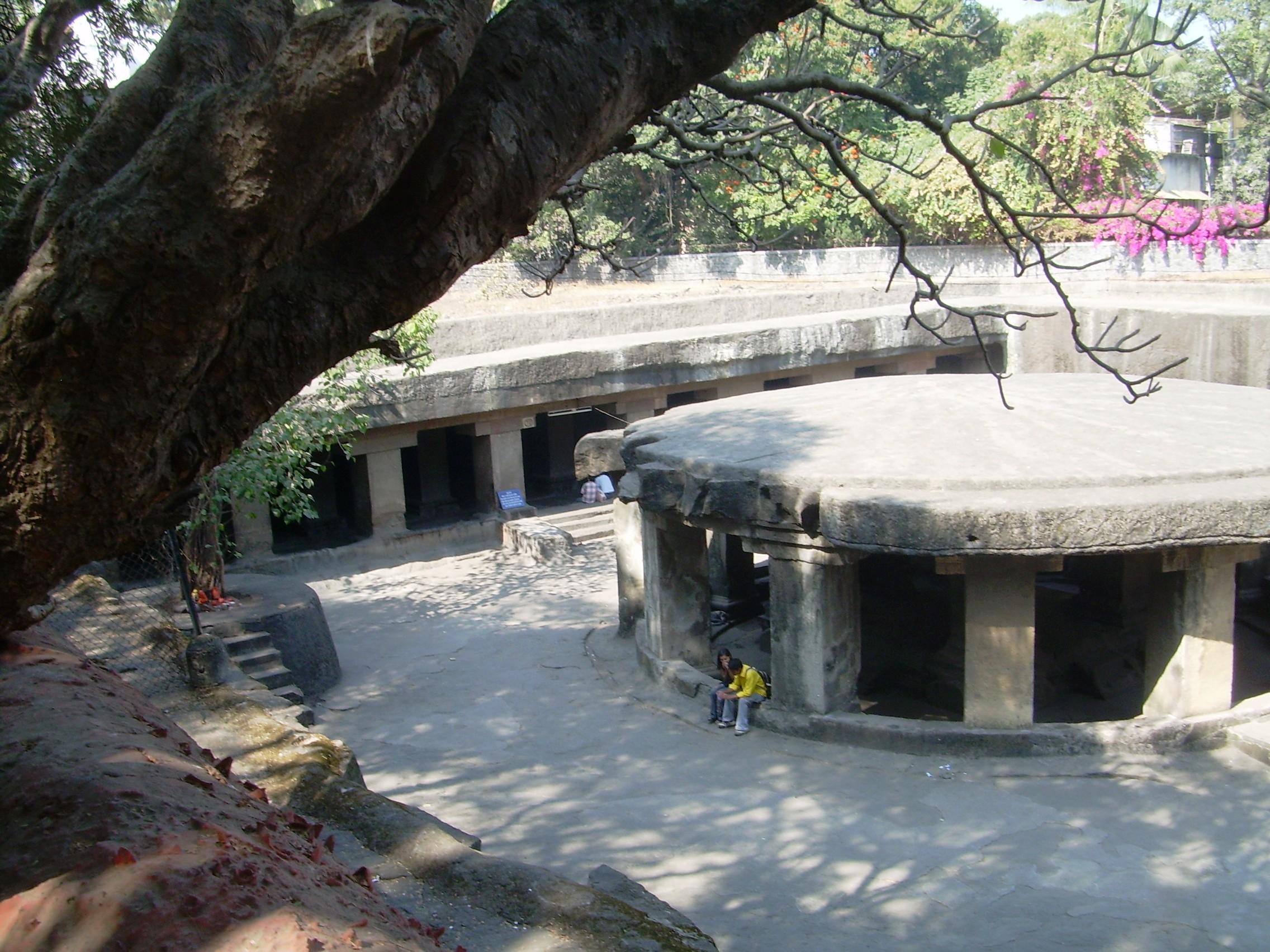 Pataleshar temple at Jangali Maharaj Road, Pune